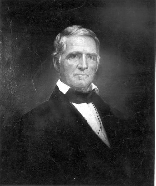 A portrait of Henry Dodge, the first Governor of the Wisconsin Territory.